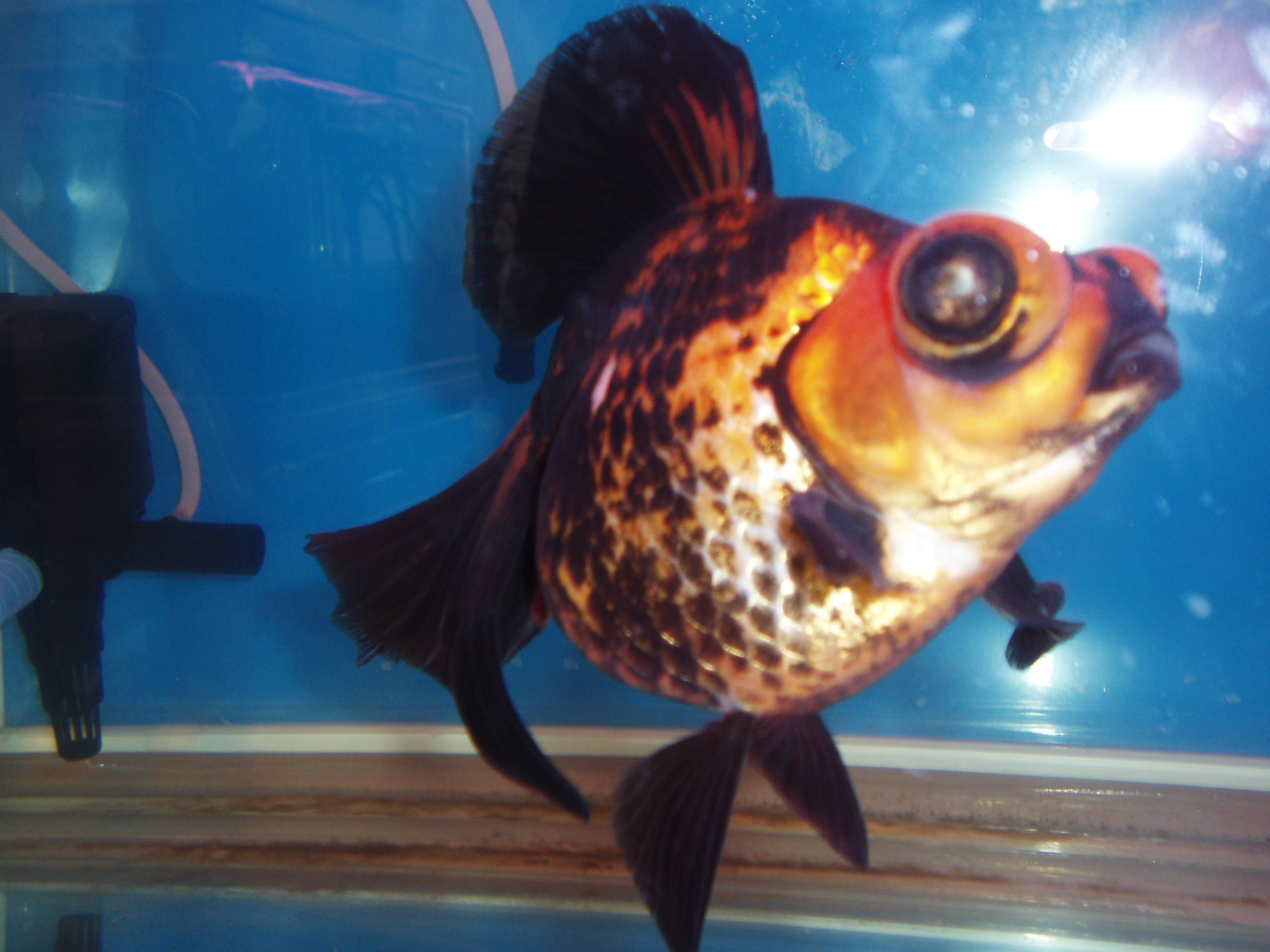 Goldfish